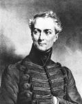 Kapodistrias Avgoustinos Antonios-Maria, Governor of Greece